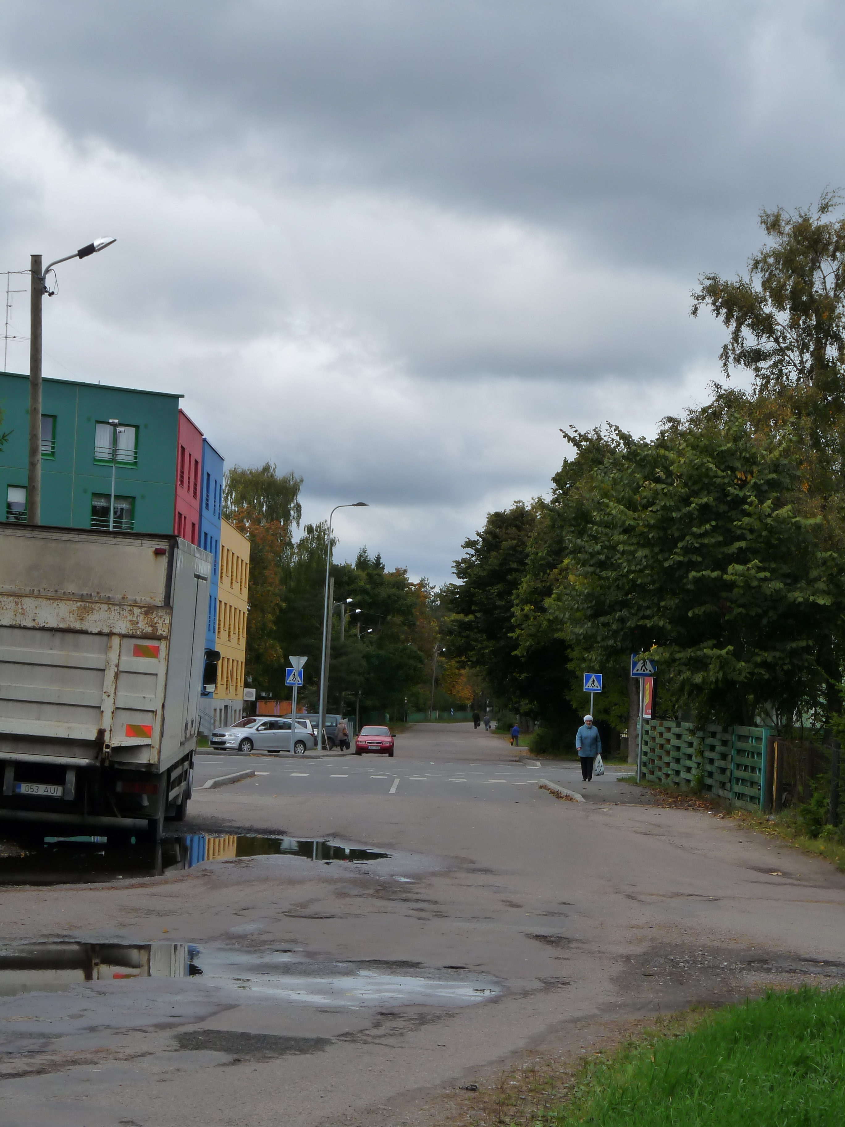 Pihlaka street in Tallinn, Estonia